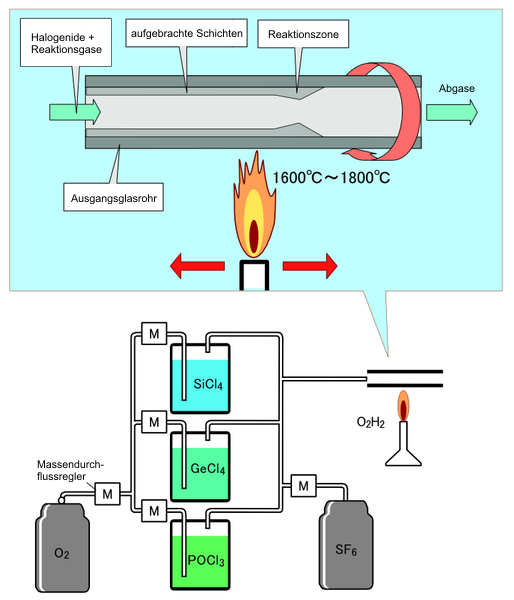 Modified Chemical Vapor Deposition (MCVD) process for optical fiber manufacturing (German labeling)